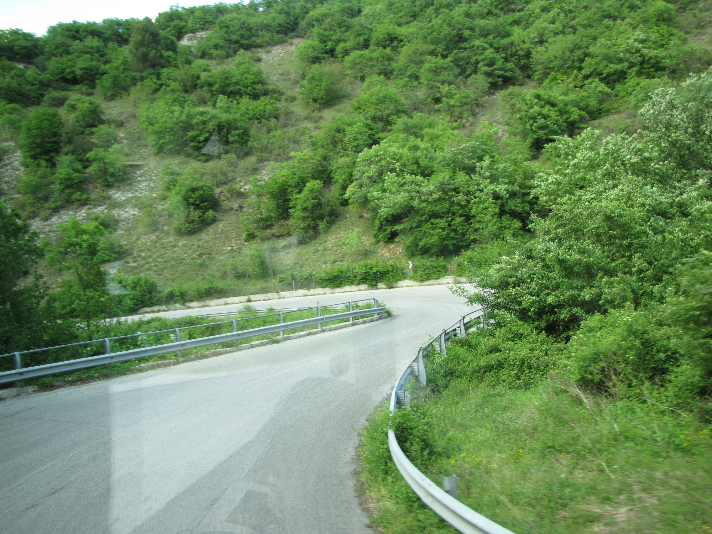 View from the State road 79 Rieti-Terni